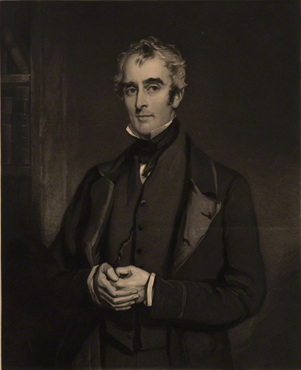 John Gibson Lockhart (1794-1854)